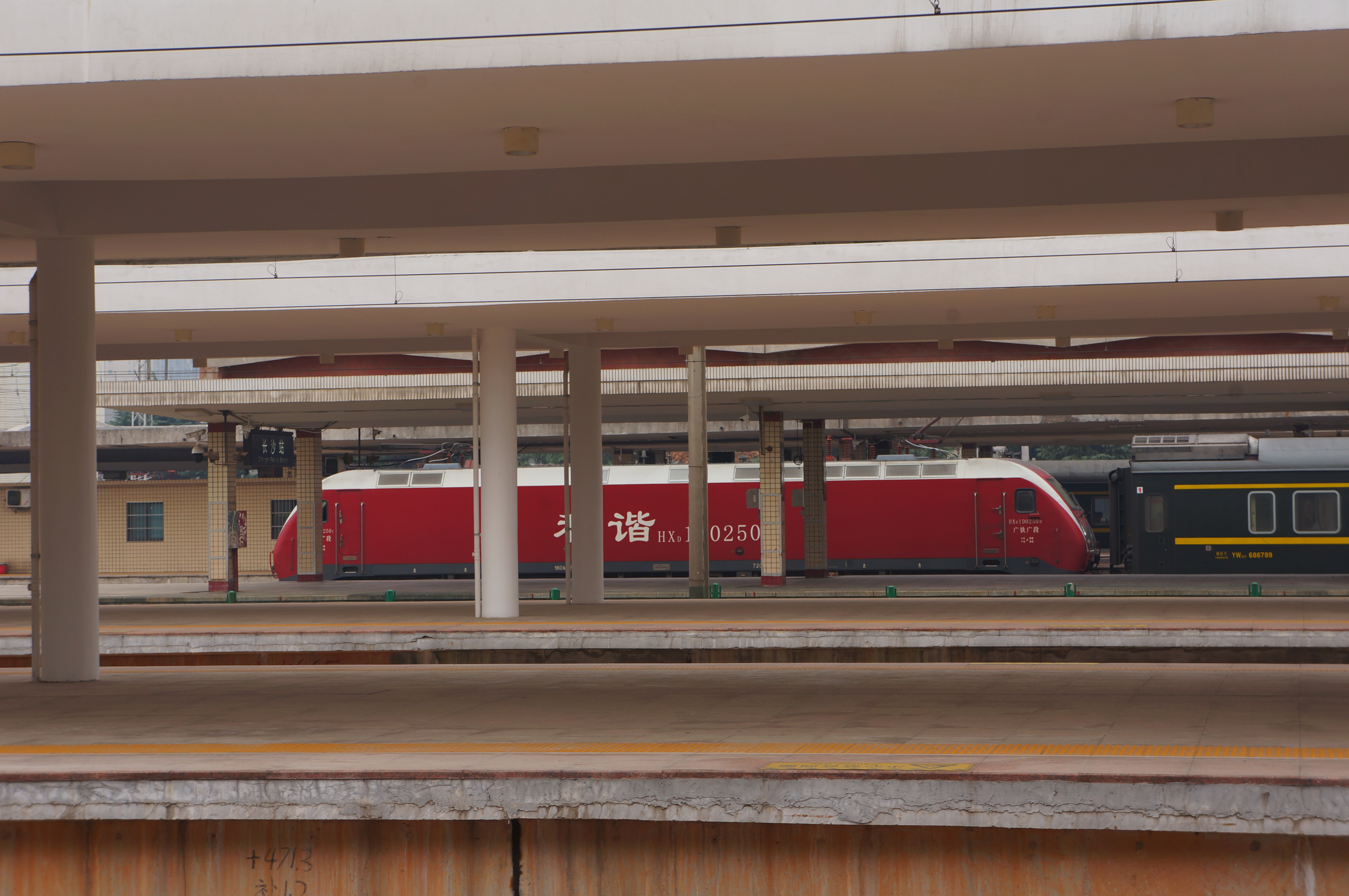 201712 HXD1D-0250 hauls Z229 (Urumqi/Wulumuqi to Shenzhen) at Changsha Station